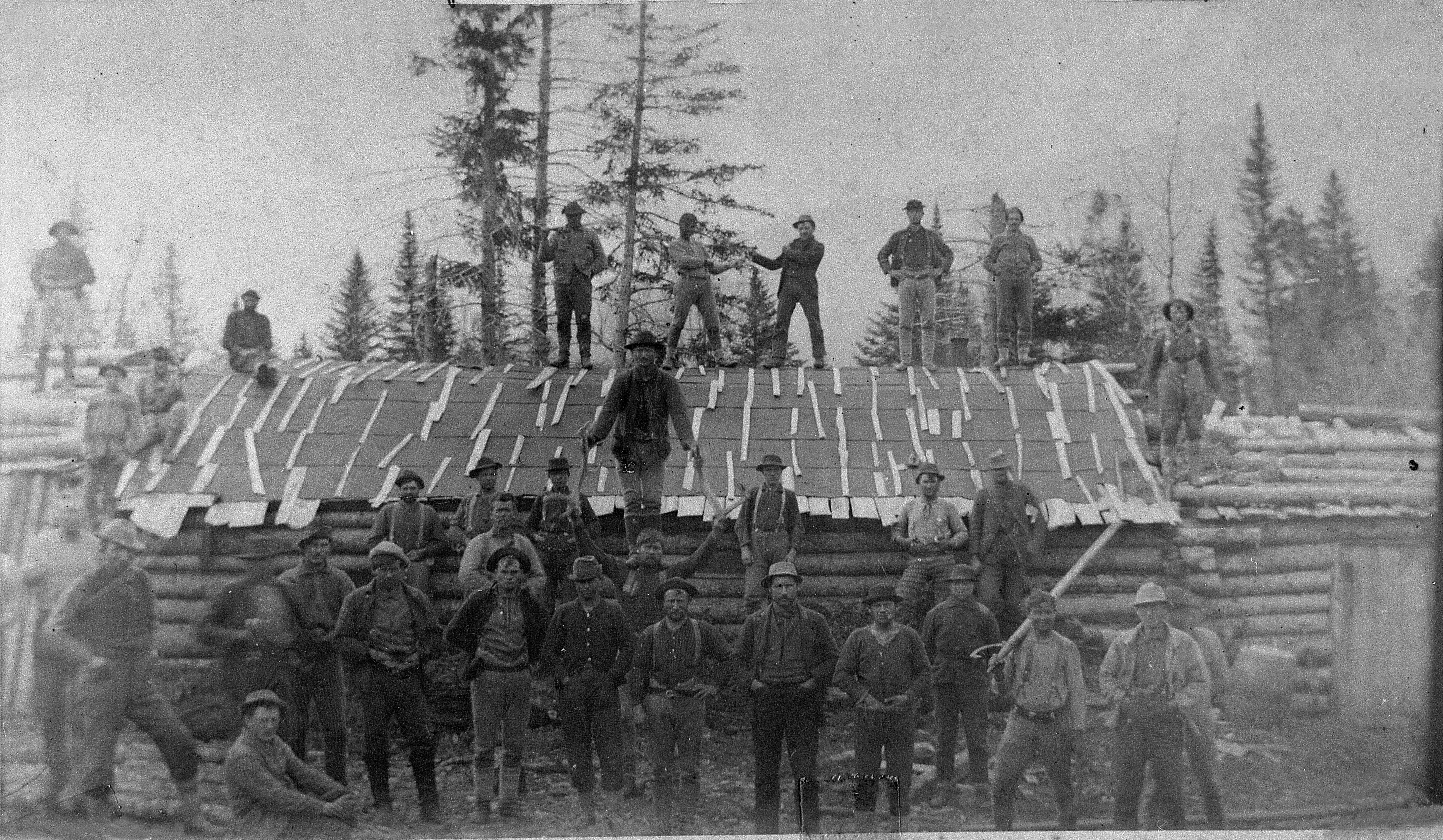 Group of 34 men pose in front of and atop Russell Camp, a double camp for loggers in Maine. The camp was likely located in Aroostook County, Maine. Retouched by MarmadukePercy